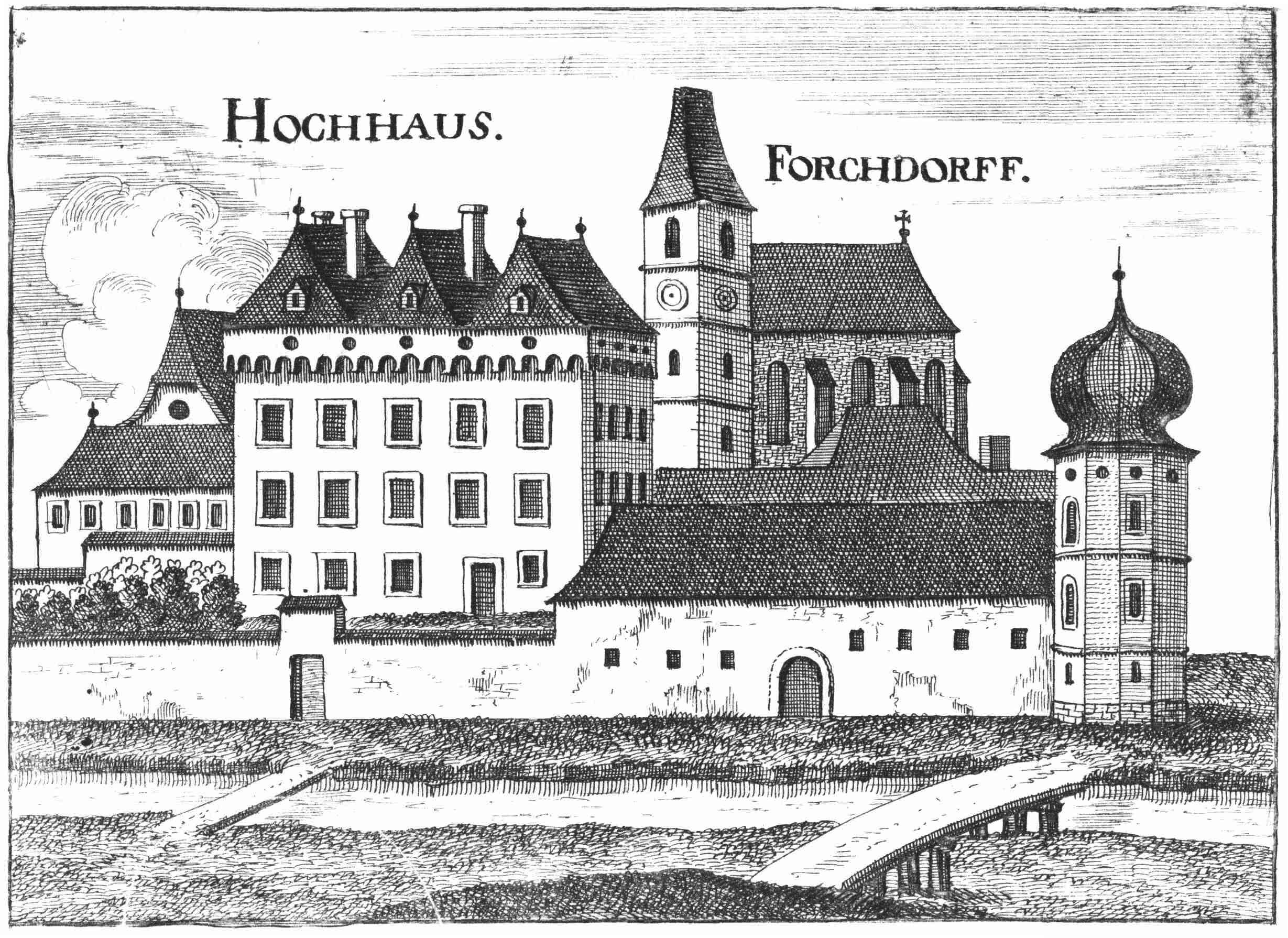 Castle Hochhaus in Upper Austria, drawing from M. Vischer 1674